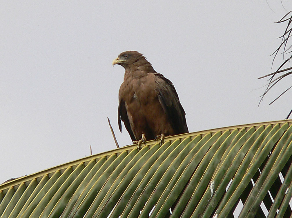 Yellow-billed kite photographed in Dakar, Senegal.